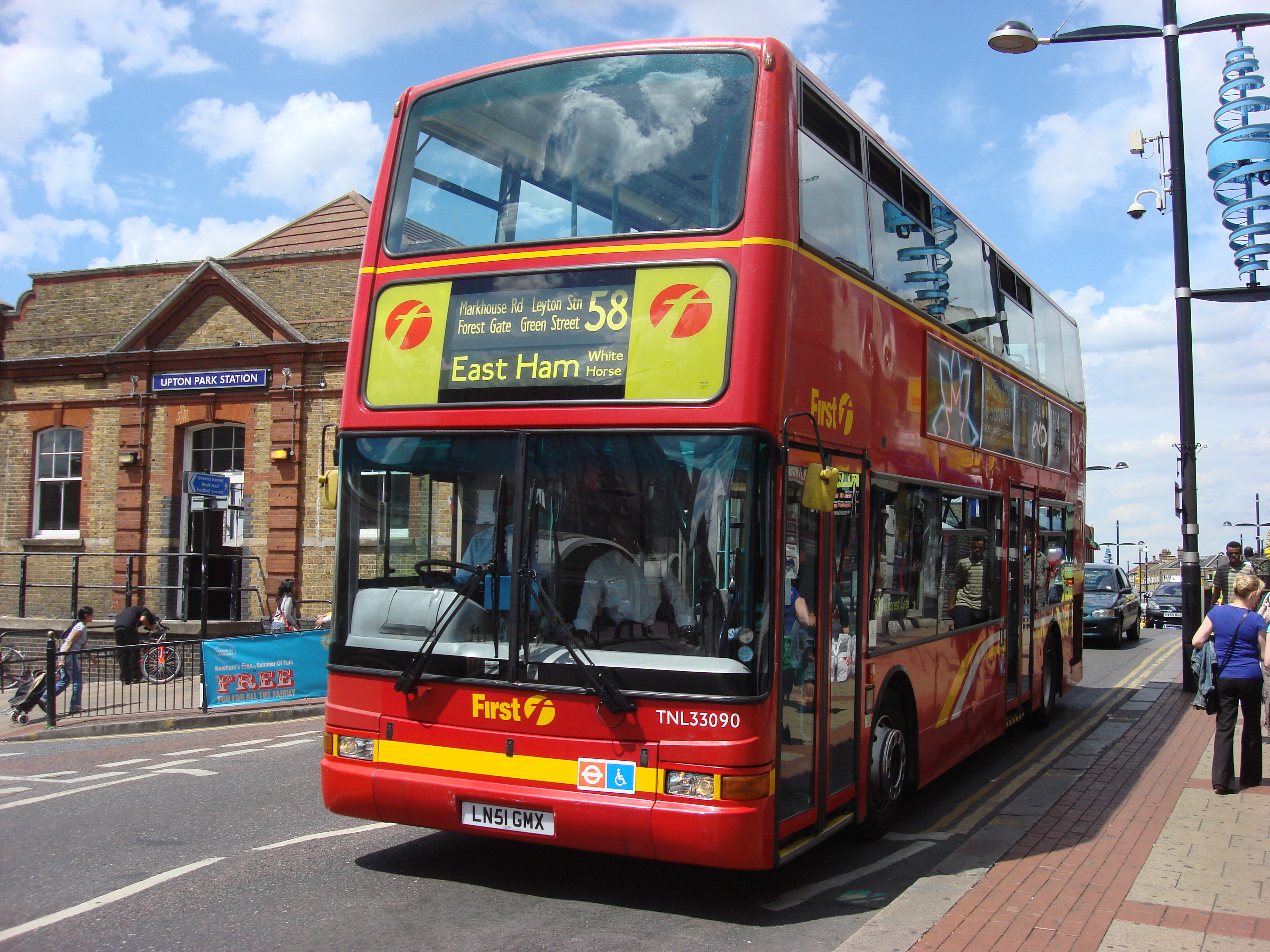 A bus on London Buses route 58